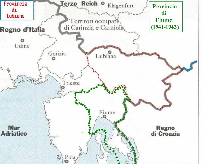 Map of the italian "Provincia di Fiume" (1941-1943). The green points limit this province of the Kingdom of Italy (that also included the island of Arbe (Rab), not shown in the map, south of the island of Veglia (Krk)).